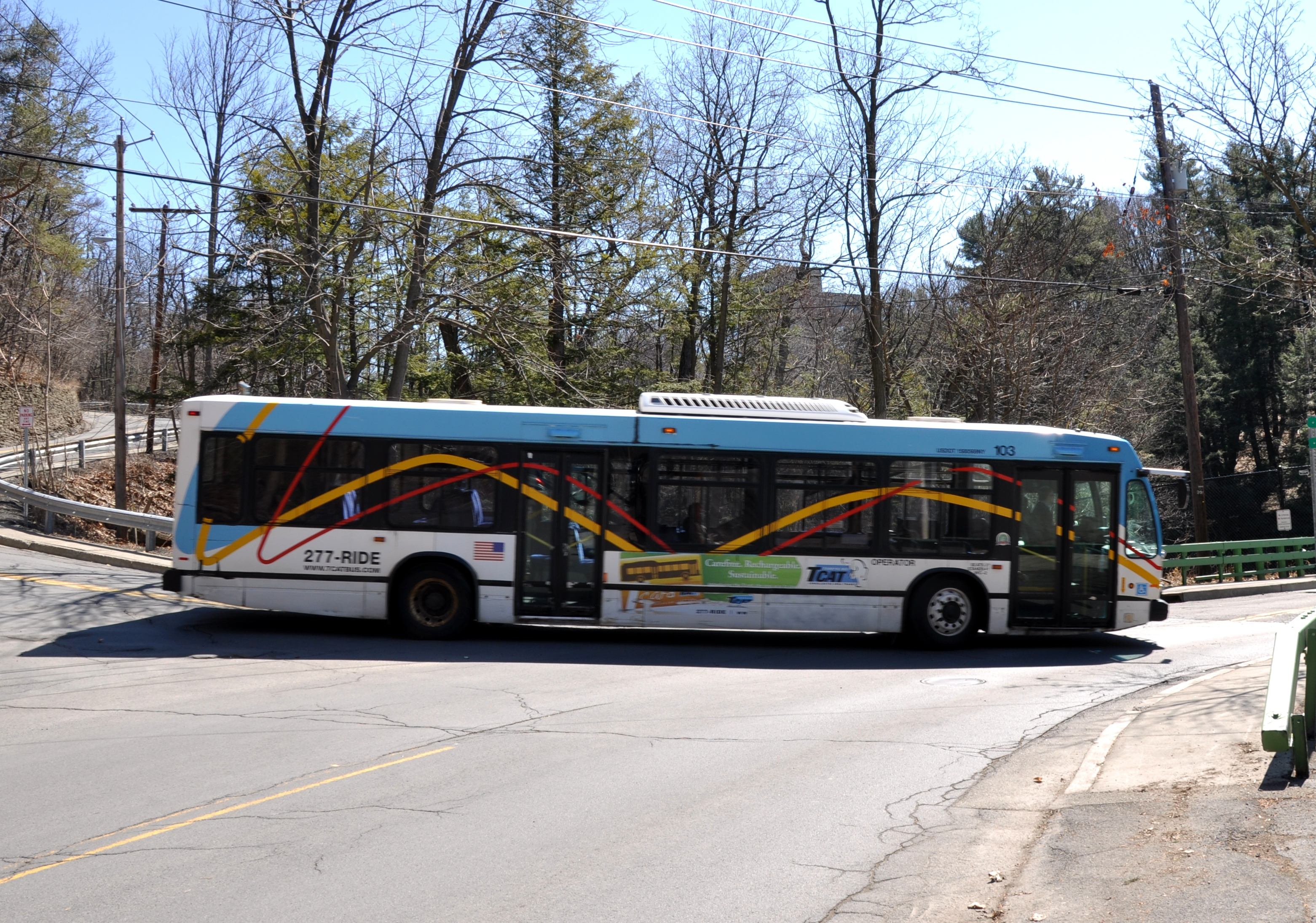 Tompkins Consolidated Area Transit bus